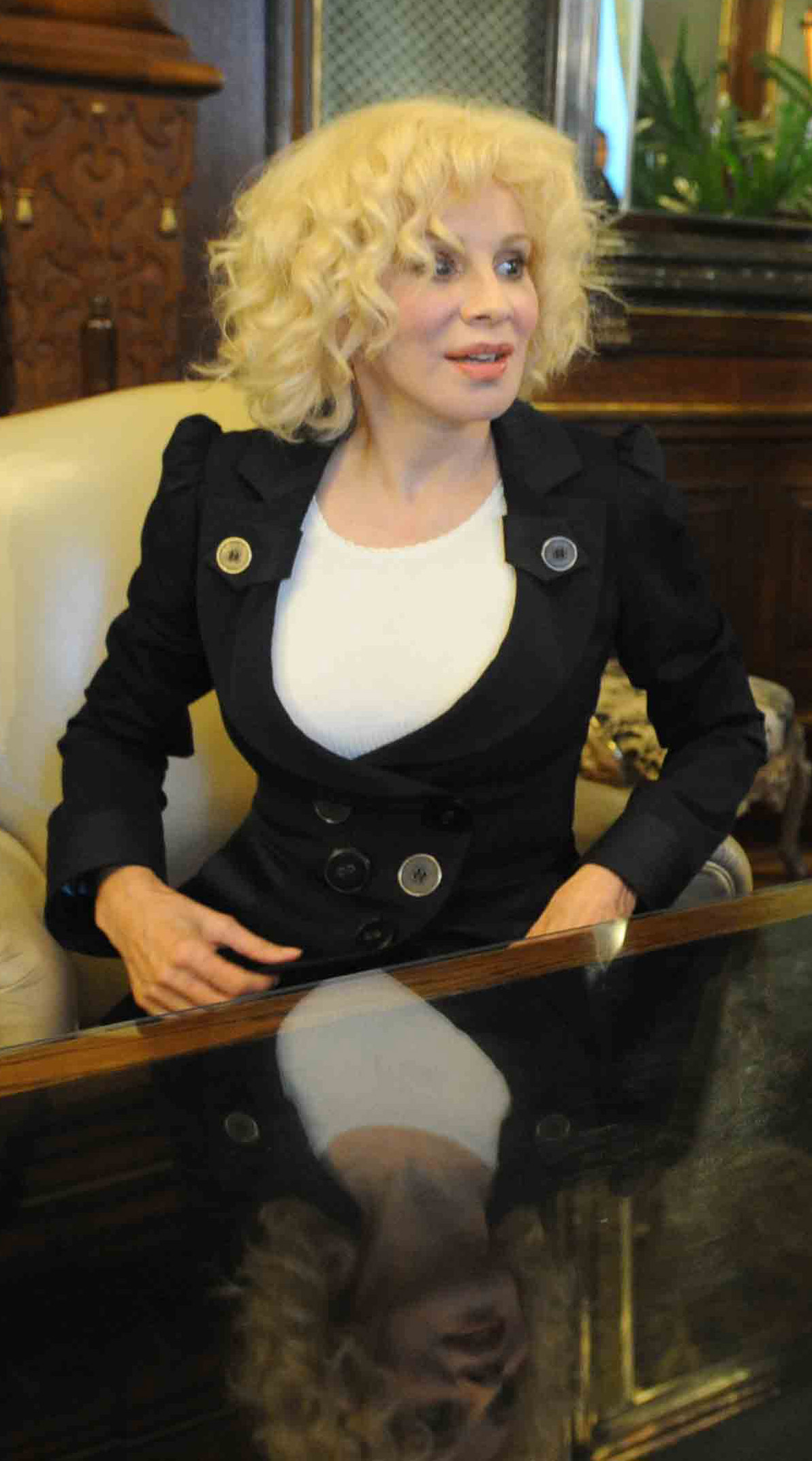 The actress Nacha Guevara, in the Government House.